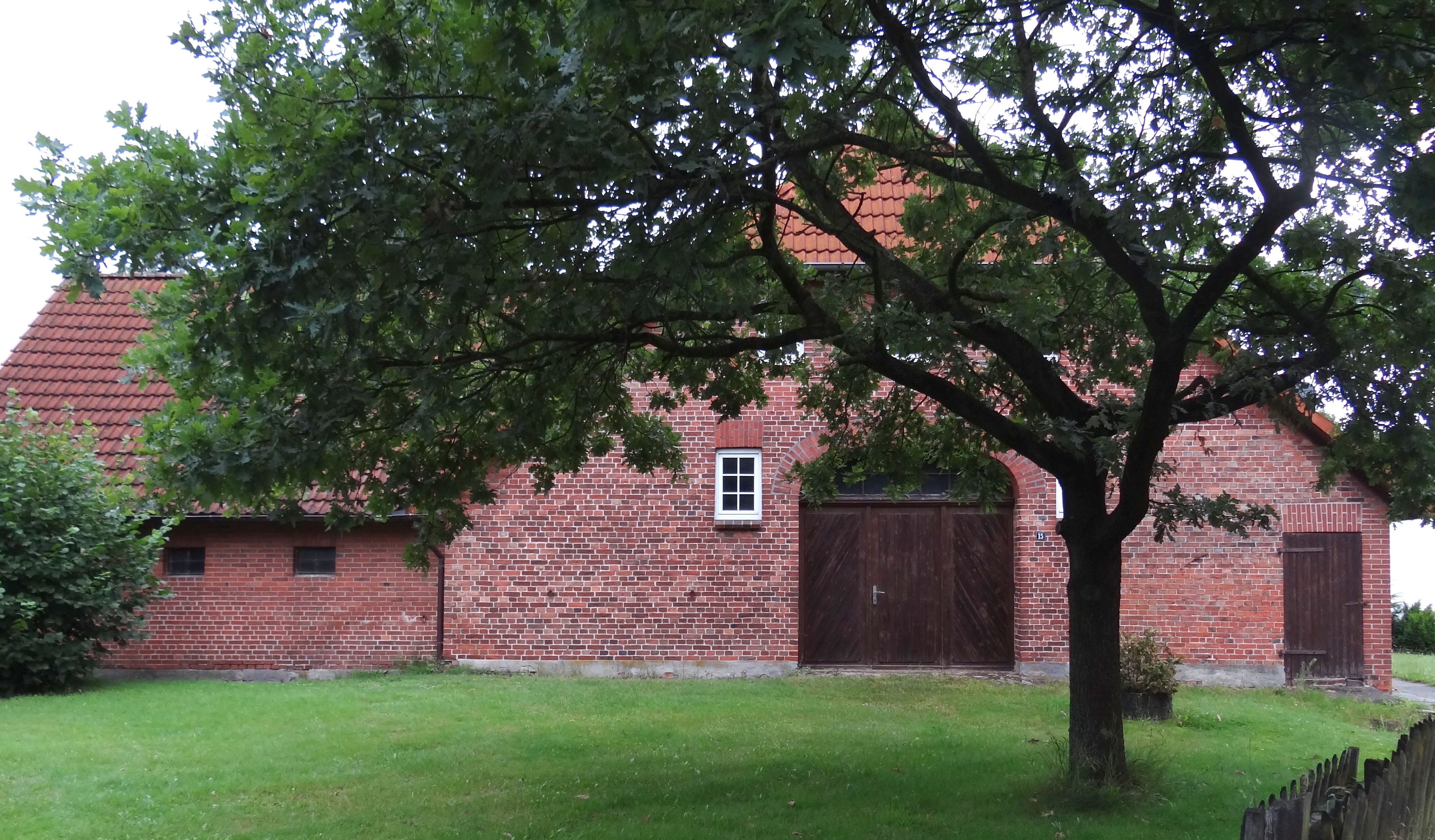 Das Geburtshaus von Peter Suhrkamp